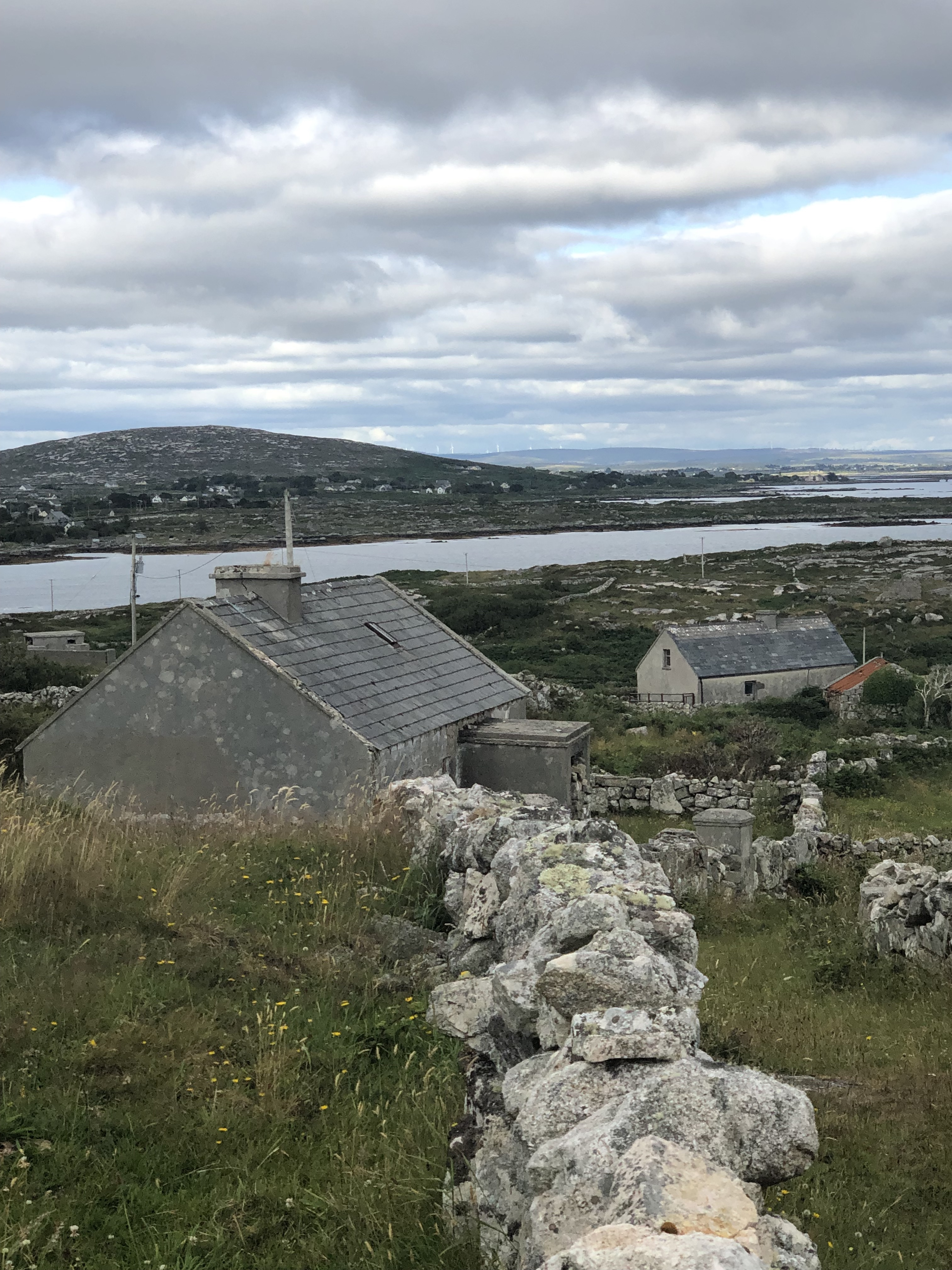 Inishbarra, view to the North